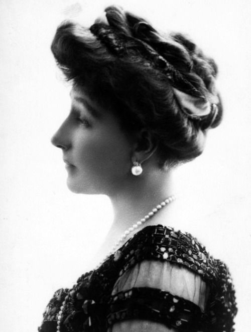 Stéphanie, Crown Princess of Austria, Hungary and Bohemia (nee Princess of Belgium)